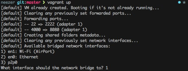 Vagrant up example